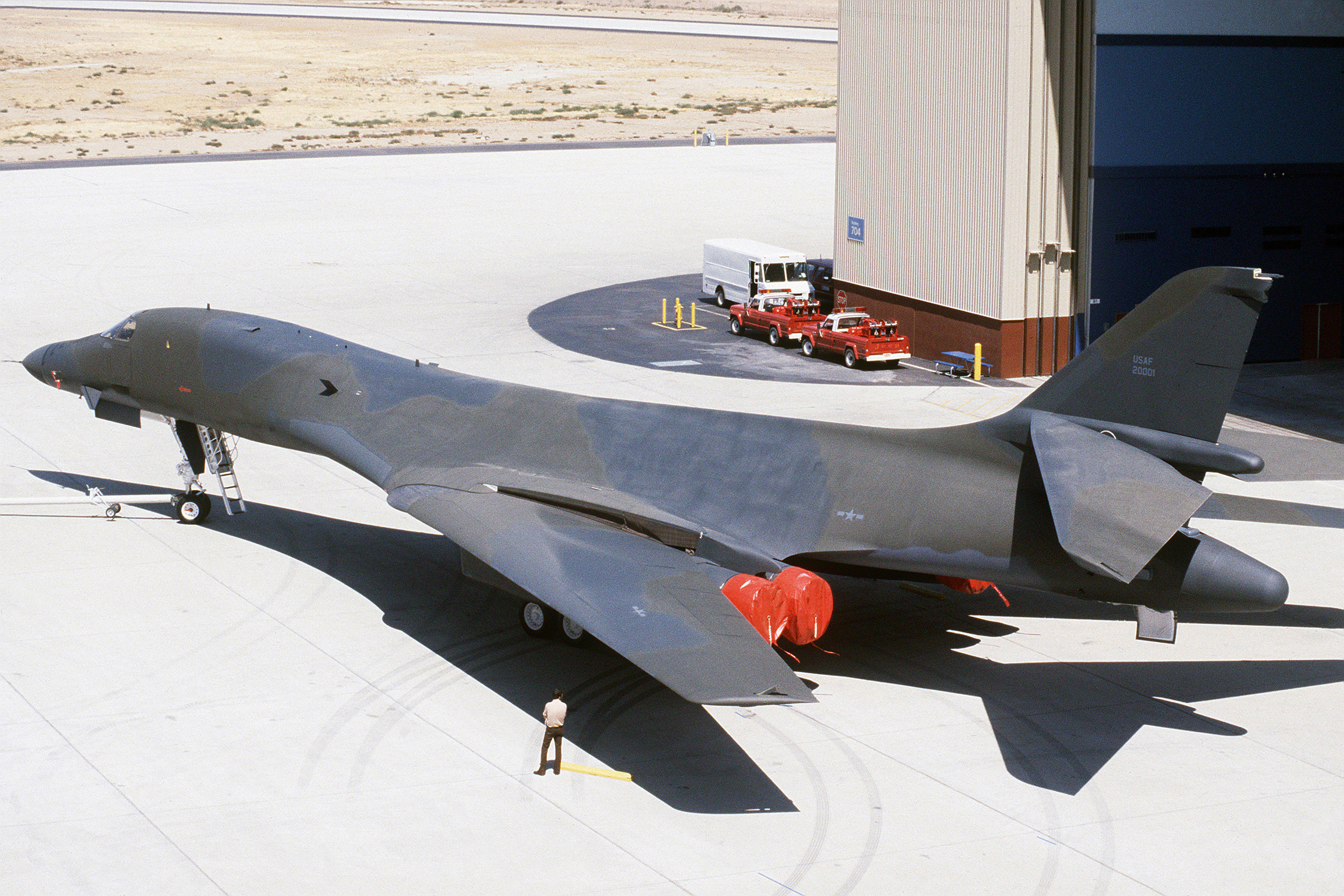 The first production model B-1B aircraft (No. 82-0001) is parked outside a hangar at the Rockwell International Corp. facility in Palmdale, California, USA.